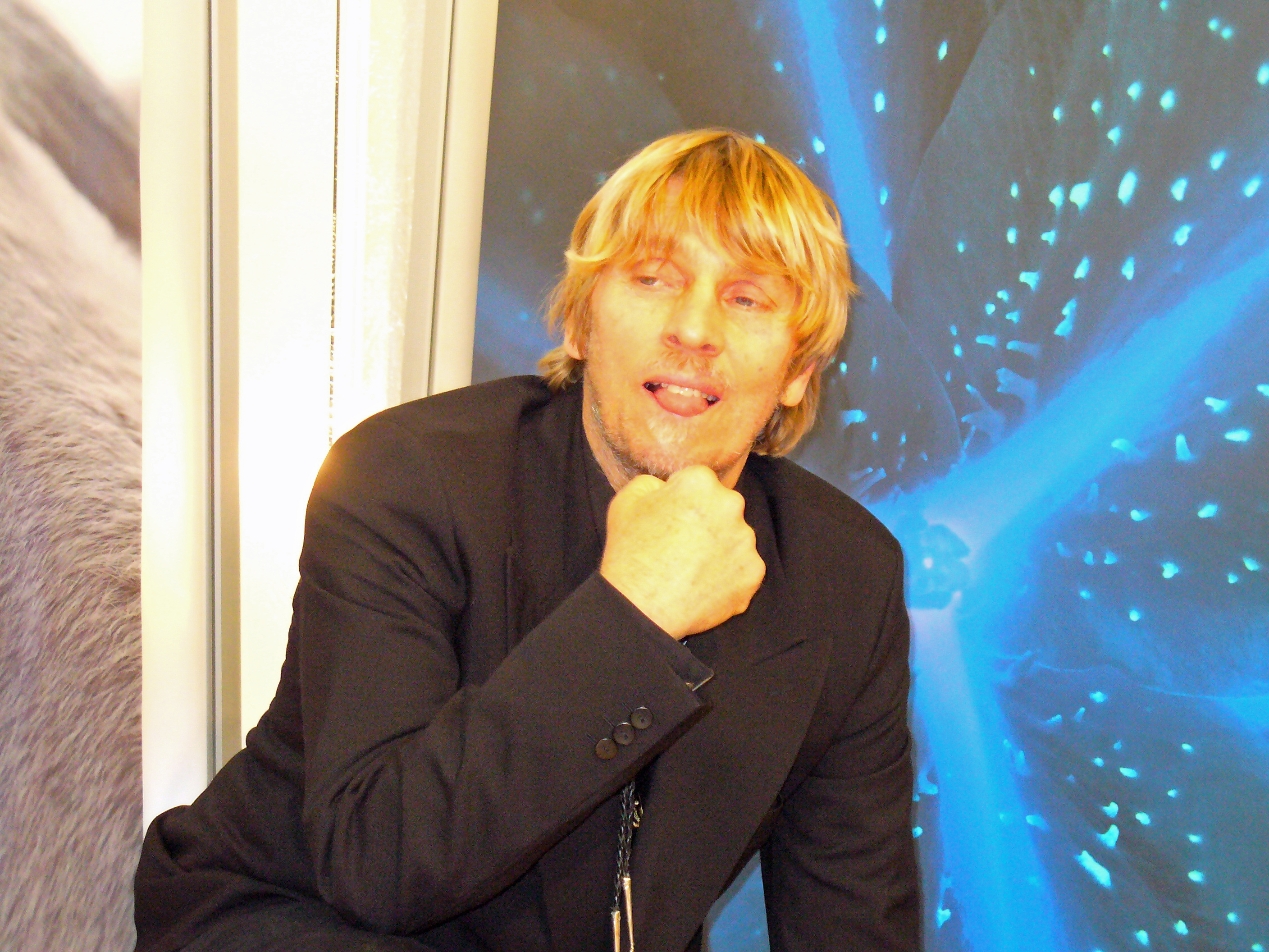 Christopher Makos